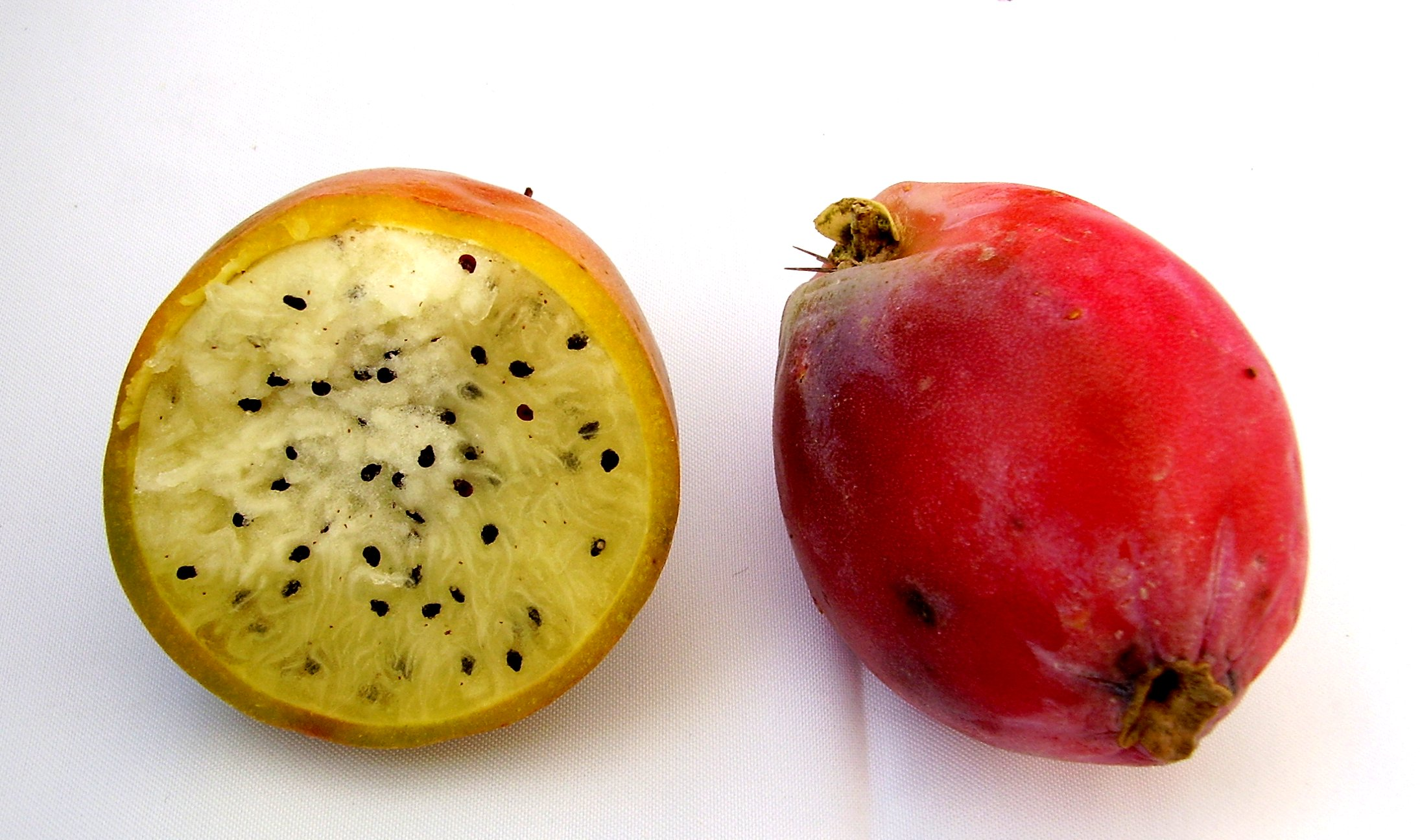 Fruit of Koubo Cereus hildmannianus (syn. Cereus peruvianus), Israel, where it is grown commercially.